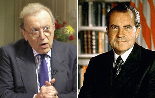 Sir David Paradine Frost –British broadcaster– & Richard Nixon –President of United States of America (1969-1974)